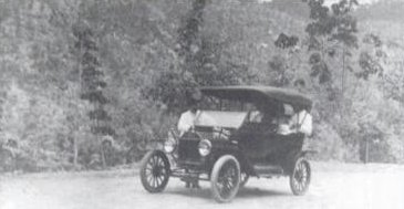 A Ford Model T in Hong Kong. Photograph was likely taken in the 1910s.